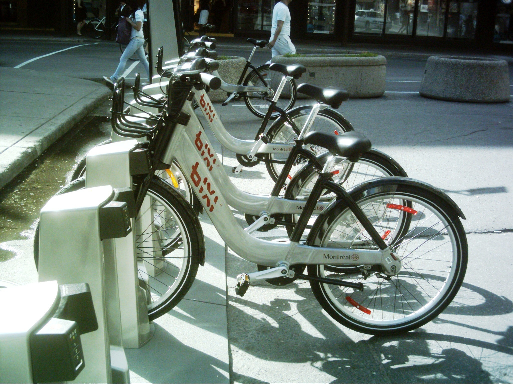 BIXI (a portmanteau word of bicycle and taxi created by Michel Gourdeau) is the name for the Public Bike System for the City of Montreal, officially launched in May 2009.